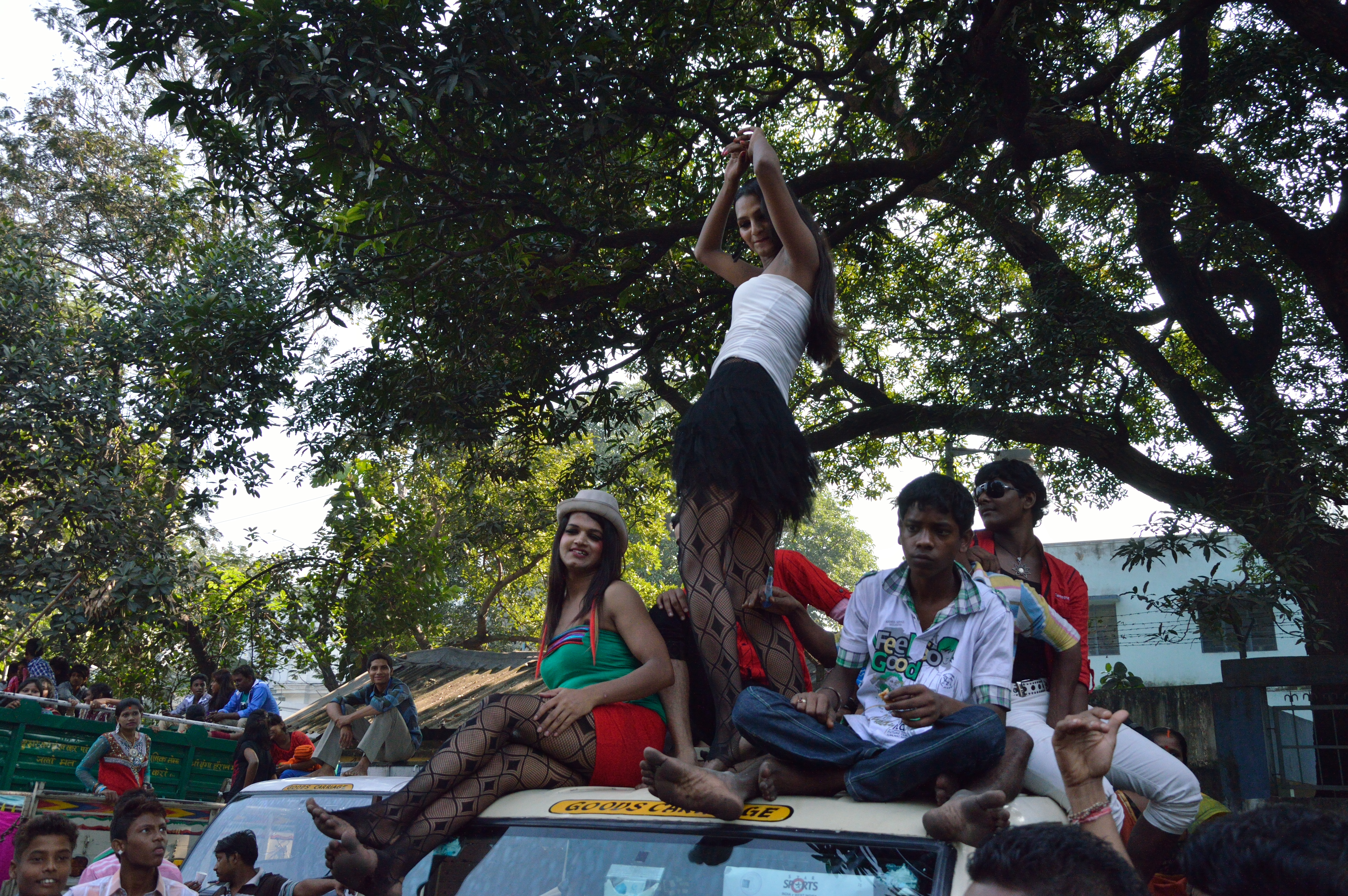 Photographed during the Chhath puja ceremony (festival dedicated to the Sun god) at the bank of river Hooghly, Kolkata. This Hindu festival regarded mainly by the people of Indian states Bihar, Uttar Pradesh, Jharkhand etc.